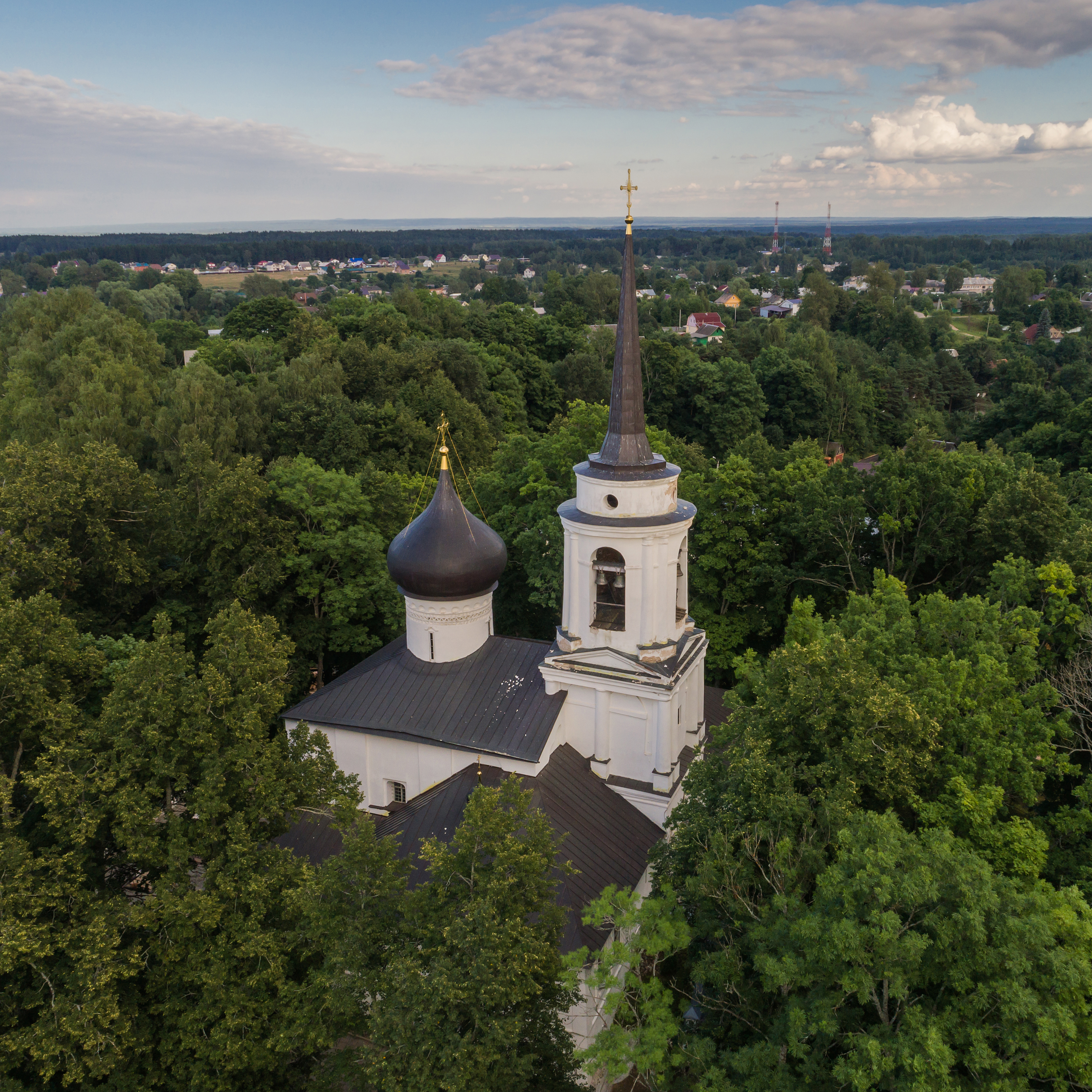 Aerial view of Assumption Cathedral of Svyatogorsky Monastery in Pushkinskiye Gory, Pskov Oblast, Russia.